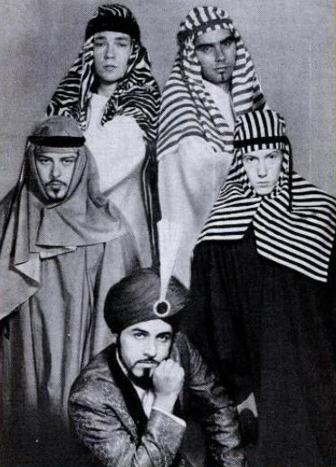 Trade ad for Sam the Sham and the Pharaohs single "Ju Ju Hand". Copyright details There are no copyright markings as can be seen at the full view link. The ad is not covered by any copyrights for Billboard. US Copyright Office page 3-magazines are collective works (PDF) "A notice for the collective work will not serve as the notice for advertisements inserted on behalf of persons other than the copyright owner of the collective work. These advertisements should each bear a separate notice in the name of the copyright owner of the advertisement."